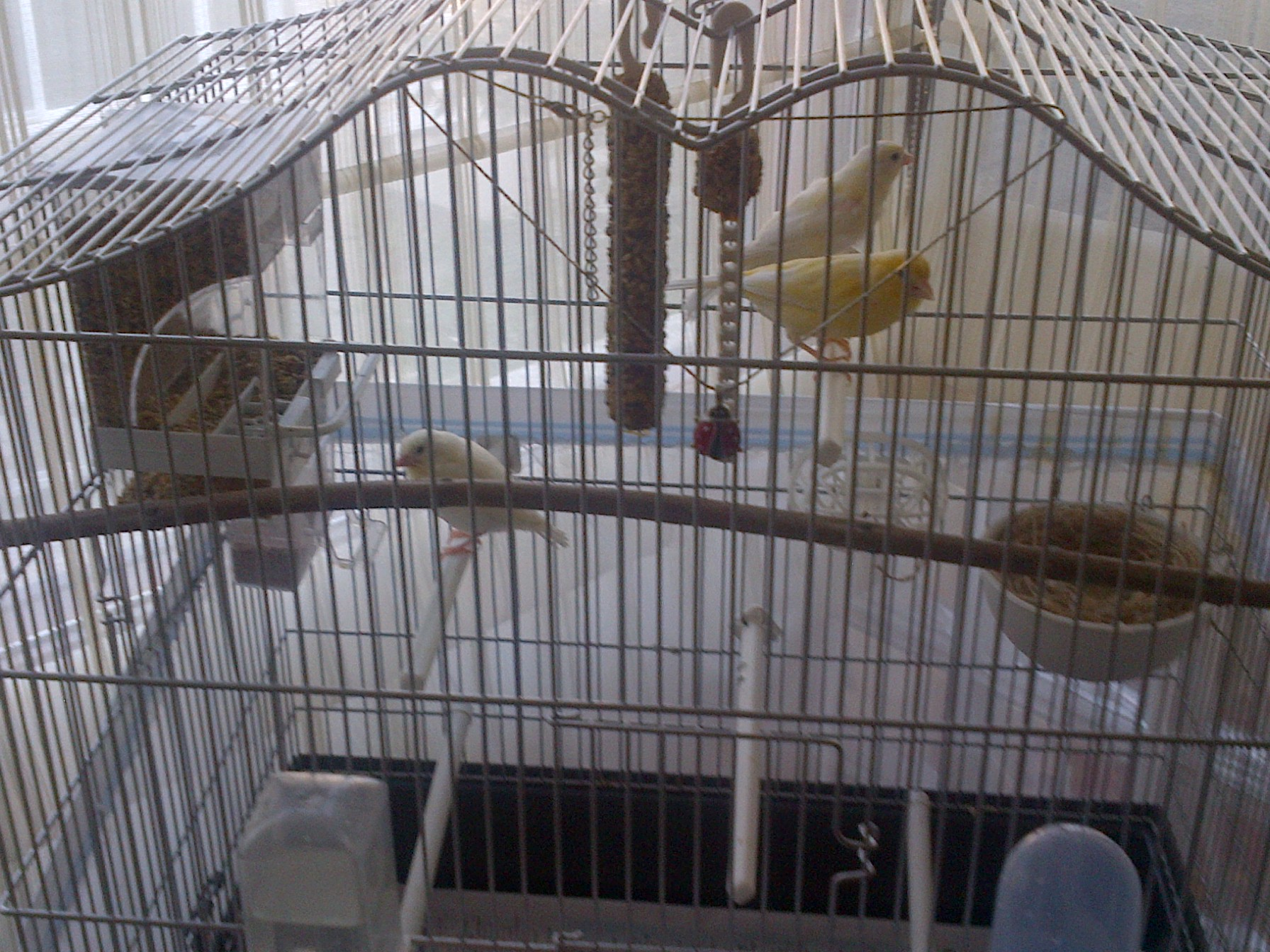 Canaries in a cage.